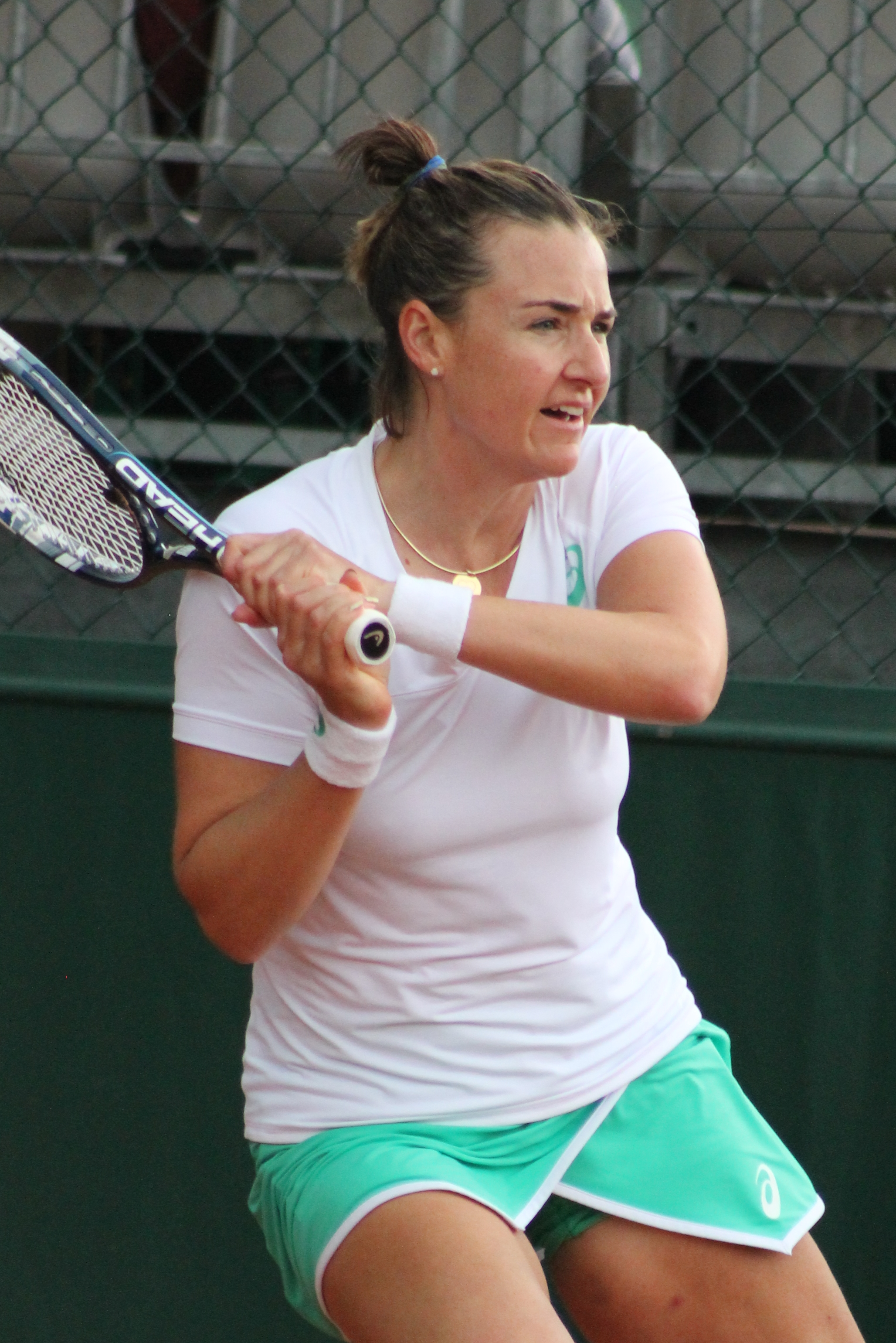 Spears RG15 (7)